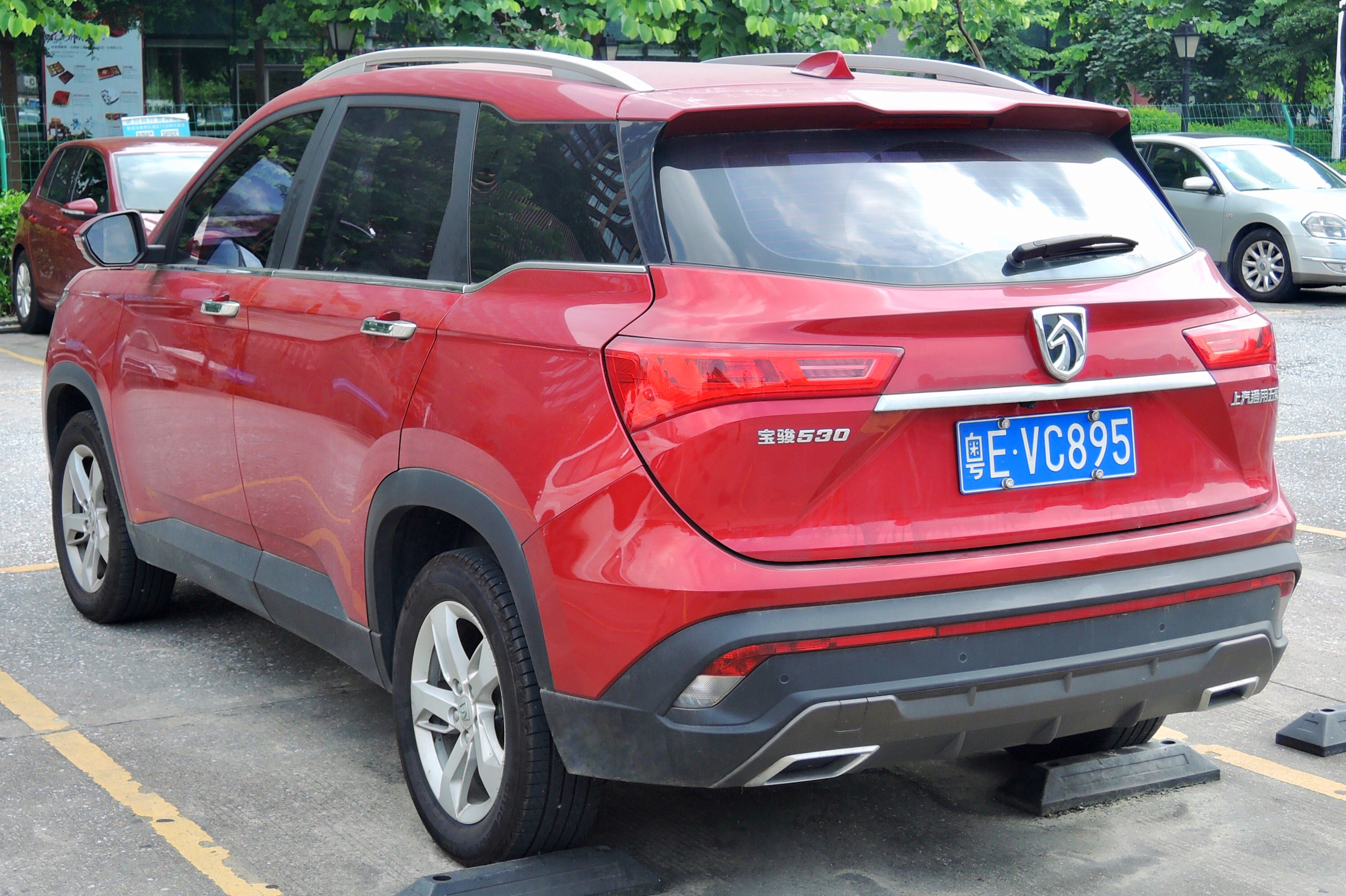 A 2018 Baojun 530 taken in Foshan, Guangdong province, China. 中文（中国大陆）: 一辆2018年的宝骏530，摄于中国广东省佛山市。